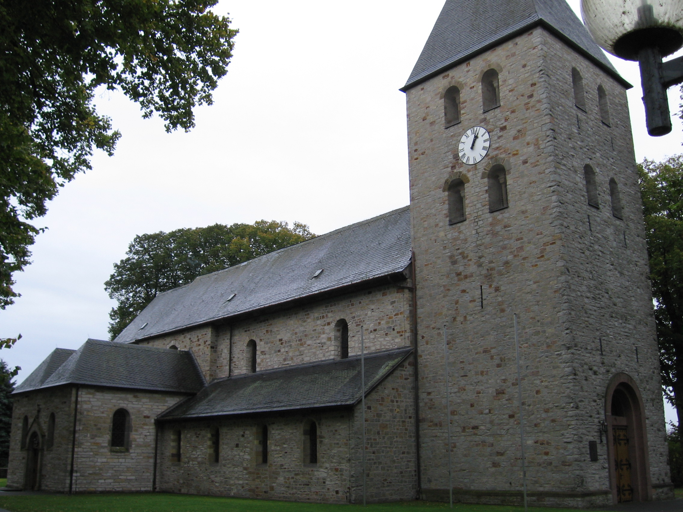 Church of the German village Boke (Northrhine-Westphalia).